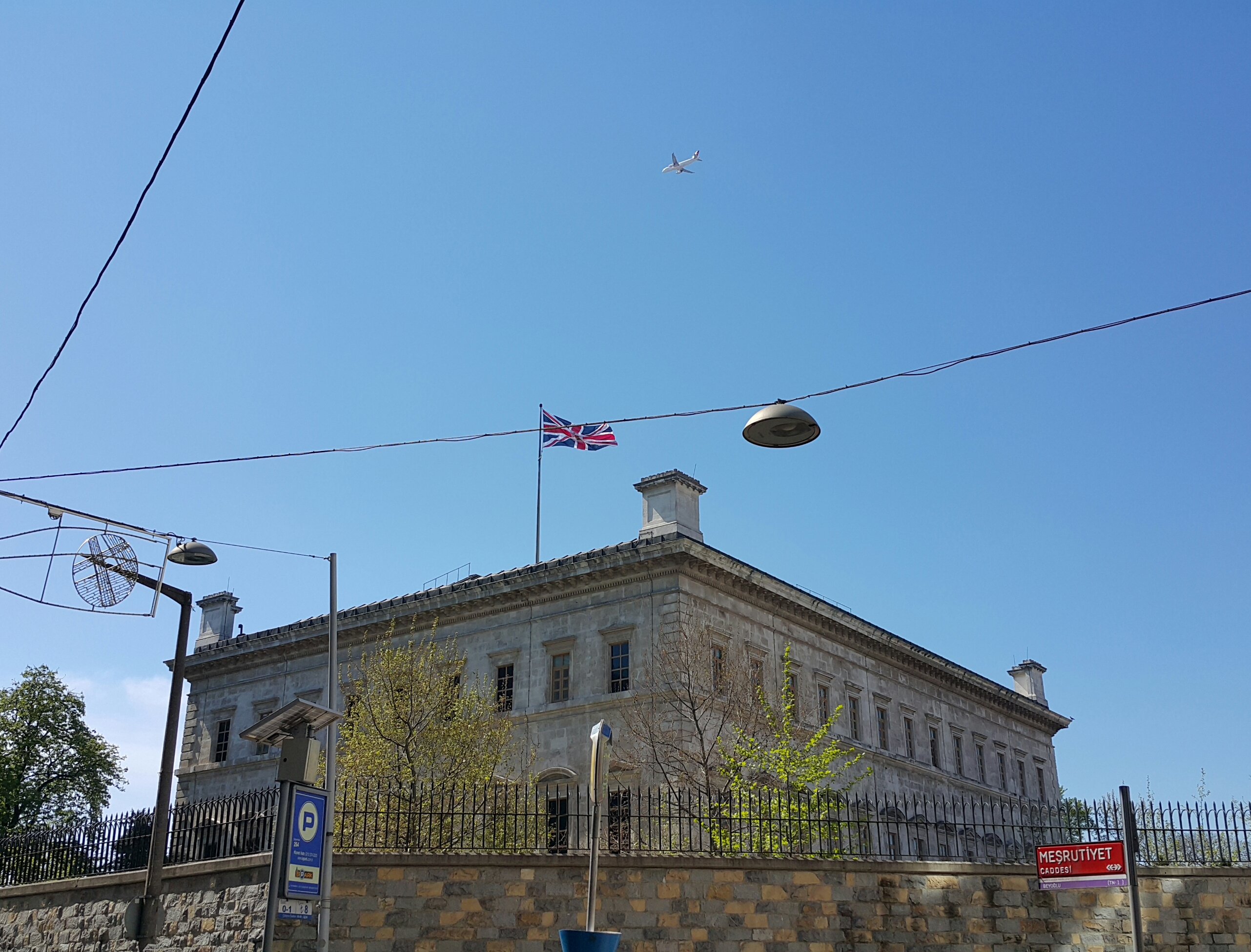 Consulte-General of United Kingdom in Istanbul, Turkey.